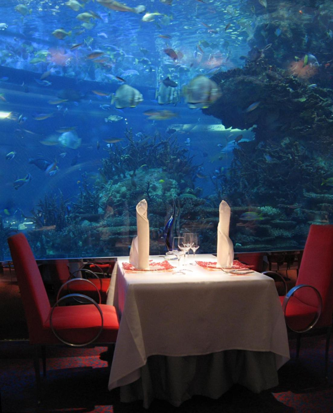 al Mahara restaurant in the Burj al Arab. Fishes include Humphead Wrasse (Cheilinus undulatus), Blacktip Reef Shark (Carcharhinus melanopterus), Fusiliers (Pterocaesio digramma), Red Sea Fairy Baslet (Pseudoanthias squamipinnis), Blue Lined Snapper (Lutjanus kasmira), Big Eye Trevally (Caranx sexfasciatus), Batfish (Platax orbicularis), Leopard Shark (Stegostoma fasciatum), Black Spotted Sweetlips (Plectorhinchus gaterinus), Two Banded Porgie (Acanthopagrus bifasciatus), Hamour (Epinephelus coioides), Soldier and Squirrel Fish (Myripristis murdjhan, Sargocentron diadema), Leopard Moray Eel (Gymnothorax favagineus), Blue Barred Parrotfish (Scarus ghobban), Moorish Idol (Zanclus cornutus), Unicorn Fish (Naso brevirostris), Yellow Bar Angelfish and Red Sea Raccoon Butterfly Fish (Pomacanthus maculosus, Chaetodon fasciatus), Green Chromis and Halfmoon Damsel (Chromis viridis, Dascyllus marginatus). The aquarium is run by the National Marine Aquarium in Plymouth, UK. There are two other tanks in the lobby of the hotel. Each of the tanks cointain 300,000 litres of salt water. The window is made out of acrylic and is 18 cm thick, and cleaned every couple of days. The fish are feed each day, some by hand, by experts who spend hours per day preparing the food.